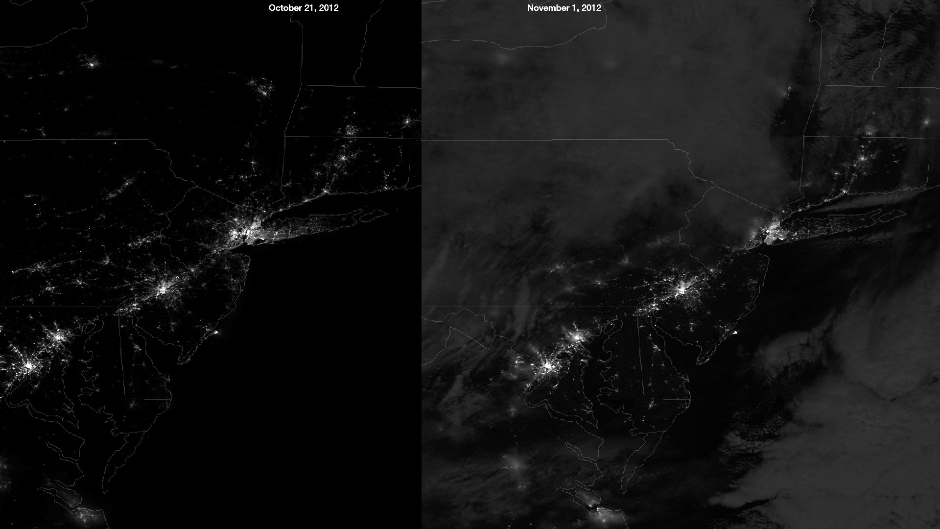 The NASA/NOAA Suomi NPP satellite's day/night band measures light emanating from the ground showing human settlements and industrial activity, and also moonlight reflected off of clouds. The image on the left was taken on October 21, 2012, an evening of a waxing crescent moon with little cloud cover over the northeastern US. The image on the right was taken in the early morning of November 1, 2012, two days after a full moon. Hurricane Sandy's impact on the region can be seen clearly by comparing these two images.